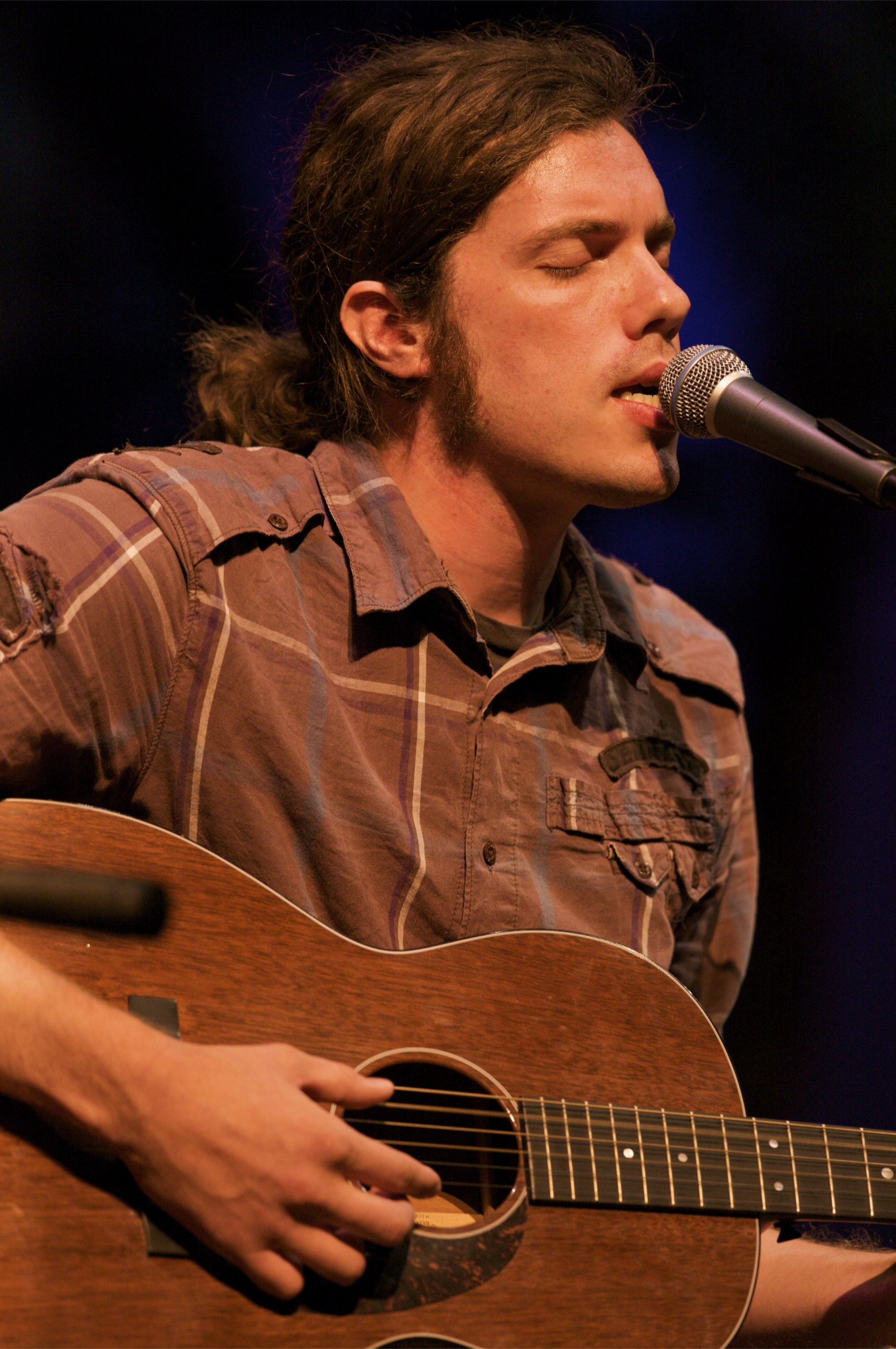 American singer-songwriter Josh Garrels at Freedom-Up in Redlands (2009)